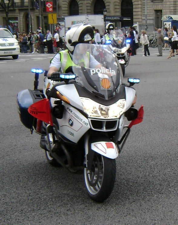 Traffic unit officer of the Mossos d'Esquadra.